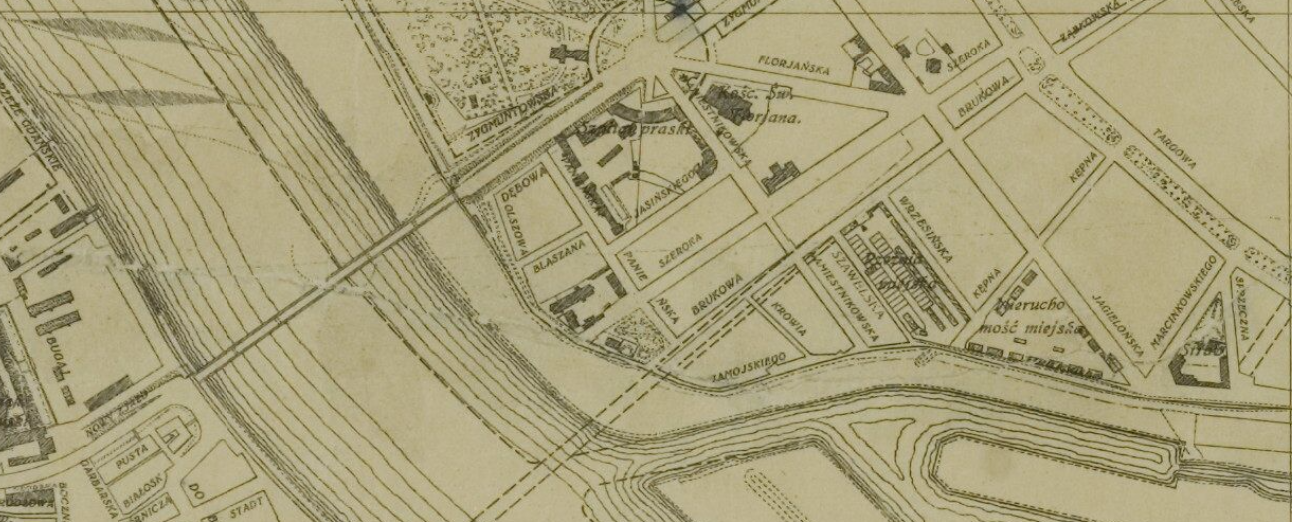 Olszowa Street on the plan of the town of Warsaw, 1931